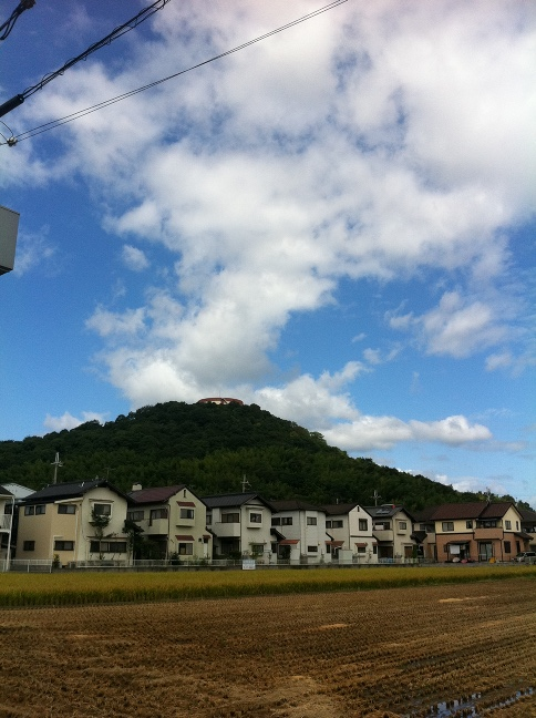 Tatsuoka Yama or Tatsuoka Hill in Taishi Cho, Hyogo Ken, Japan